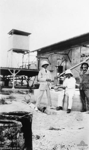 AWM Caption: Colonel William Holmes, Commander of the Australian Naval and Military Expeditionary Force (AN&MEF) (in centre) and two unidentified officers at the wireless station at Bitapaka after its capture. The first objective of the New Guinea expedition was this wireless station, a few miles inland from Blanche Bay, which at the outbreak of war was still in course of construction, but was hurriedly got ready for use. Colonel William Holmes, Commander of the AN&MEF is in the centre.